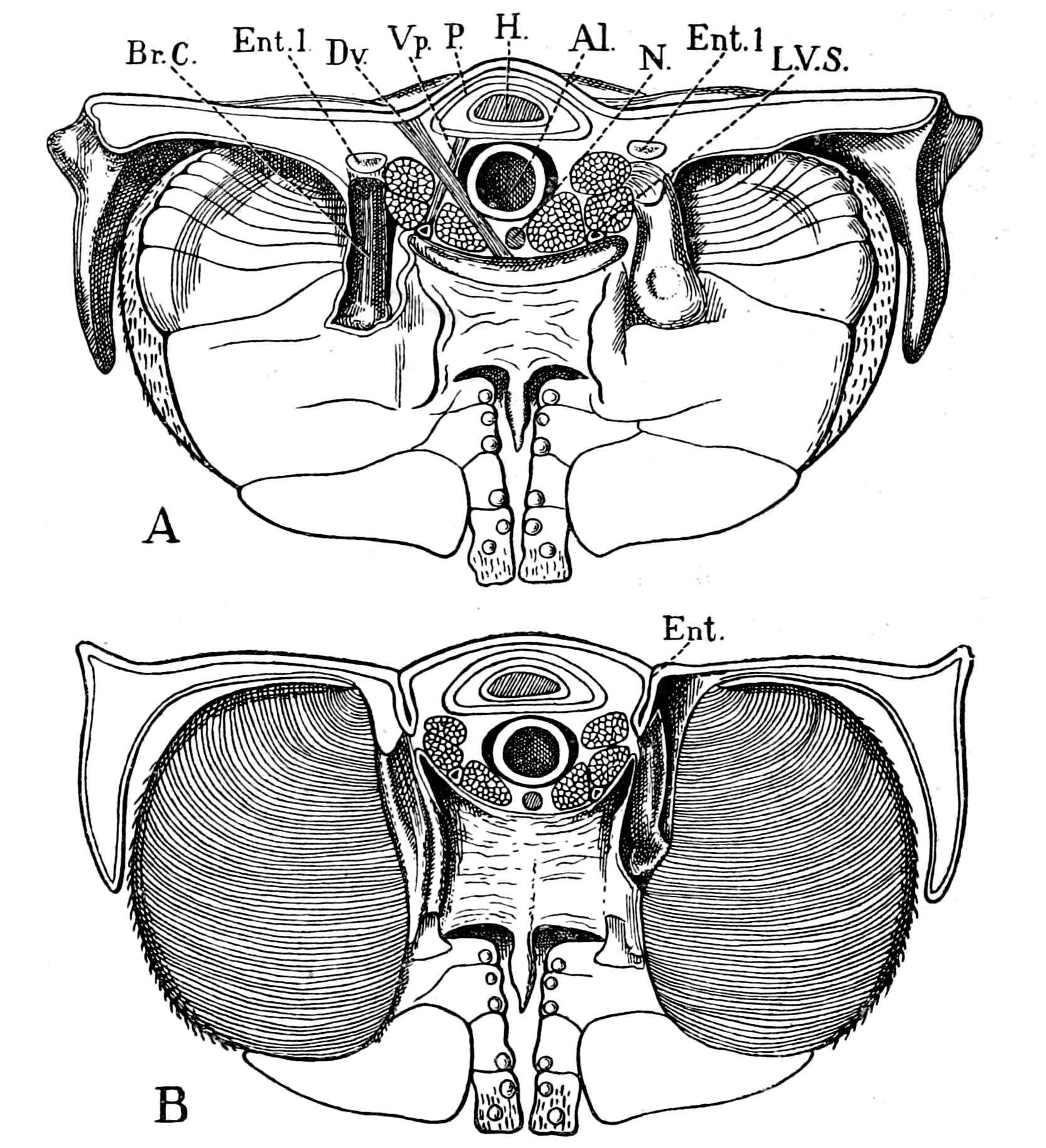 Fig. 58.—Transverse Section through the Mesosoma of Limulus, to show the Anterior (A) and the Posterior (B) Surfaces of a Mesosomatic or Branchial Appendage. In each figure the branchial cartilaginous bar, Br.C., has been exposed by dissection on one side. Ent., entapophysis; Ent.l., entapophysial ligament cut across; Br.C., branchial cartilaginous bar, which springs from the entapophysis; H., heart; P., pericardium; Al., alimentary canal; N., nerve cord; L.V.S., longitudinal venous sinus; Dv., dorso-ventral somatic muscle; Vp., veno-pericardial muscle.